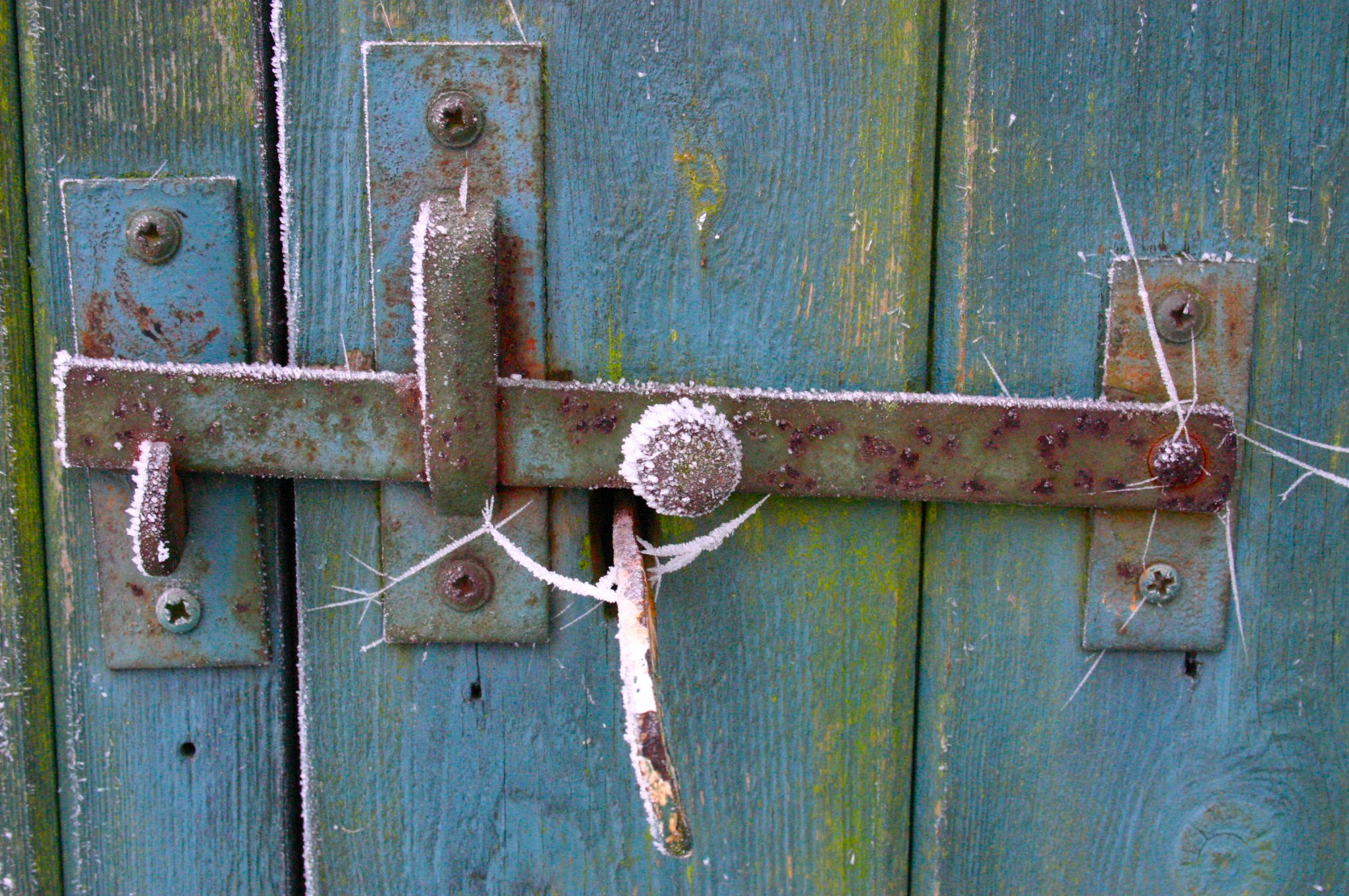 Frost on a latch with some web strands on a blue / green garden shed.